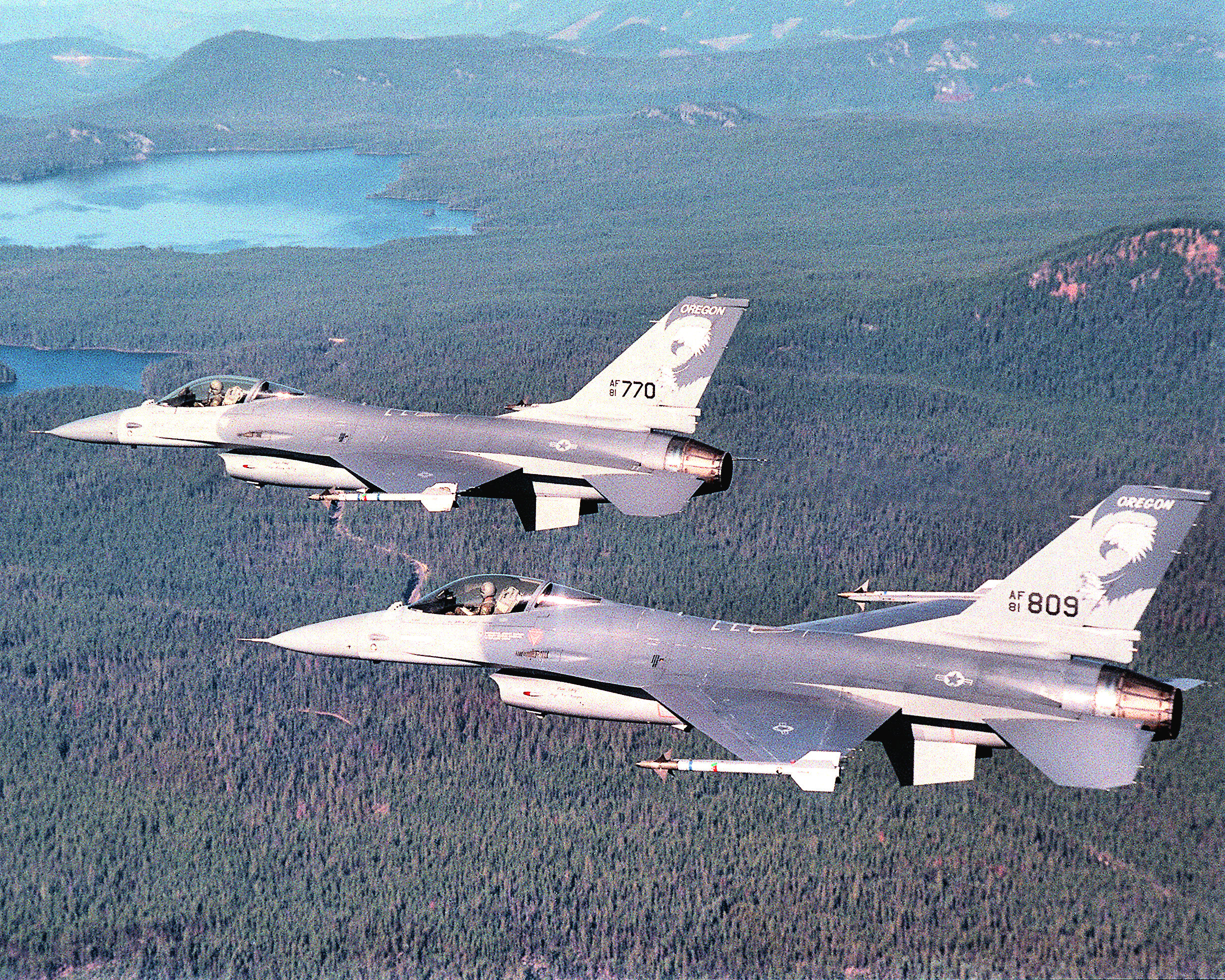 Two Ore. Air National Guard F-16 Fighting Falcons from the 114th Fighter Squadron fly over Klamath Falls, Ore. Aircraft identified as: F-16A Block 15G Fighting Falcon 81-770. (Written off Nov 29, 1993) and F-16A Block 15H Fighting Falcon 81-809. 809 was retired to AMARC as FG0163 May 13, 1994. Still on AMARC inventory Jan 15, 2008